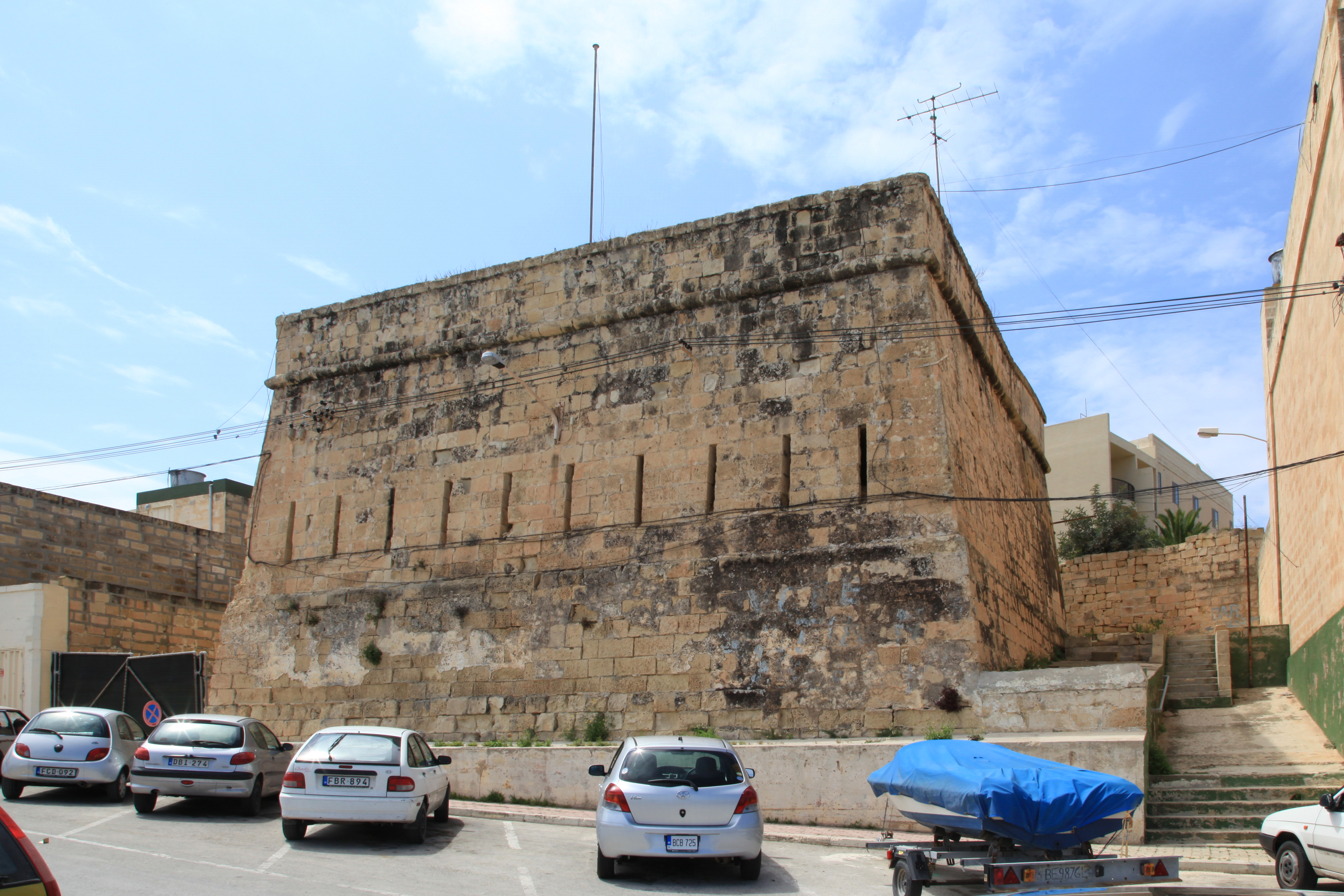 Vendôme Tower at Triq it-Torri Vendome in Marsaxlokk